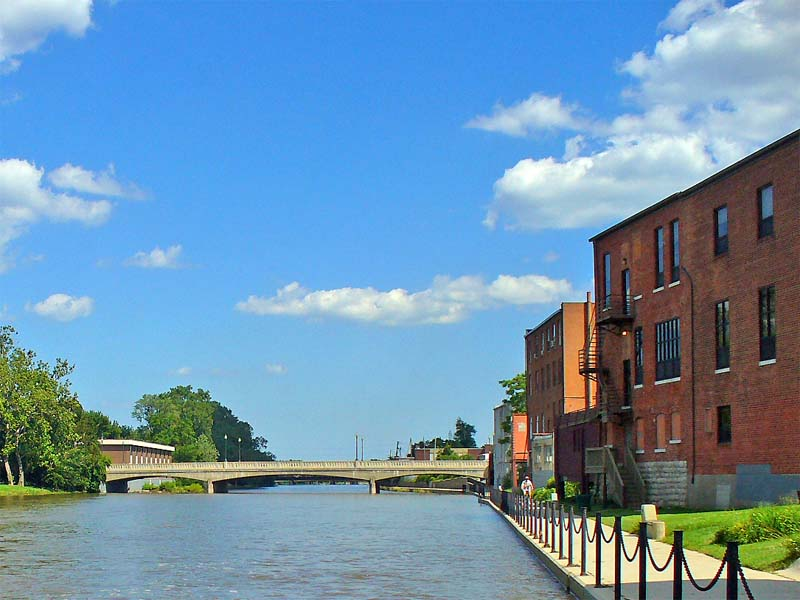 Macon Street over River Raisin in downtown Monroe, Michigan.